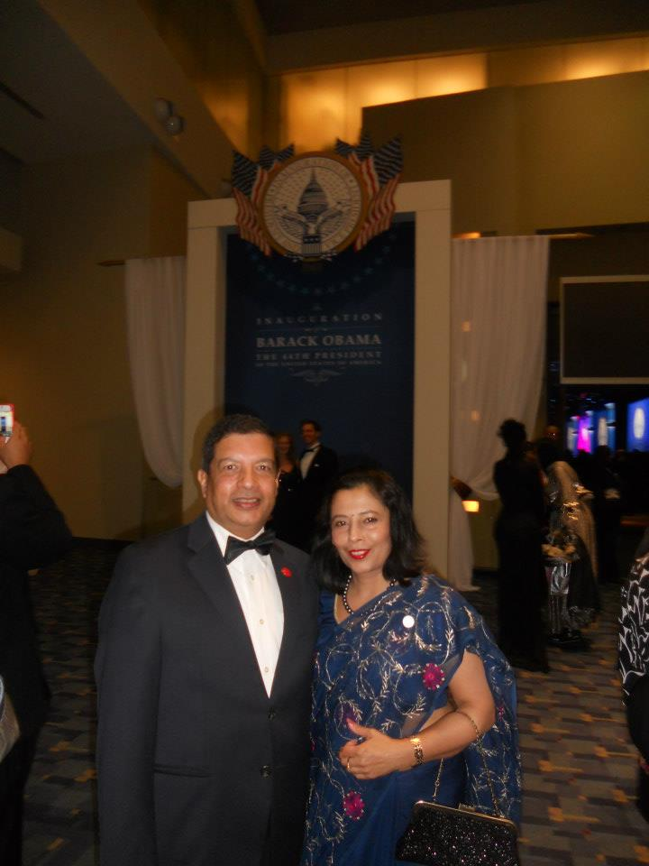 Representation as an ambassador of Nepal at the 57th Presidential Inaguration